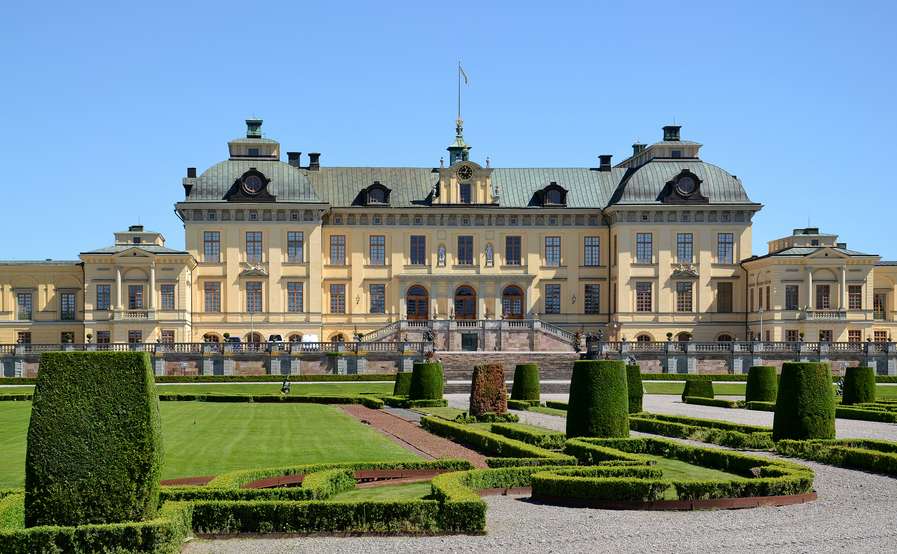 Drottningholm Palace, Sweden